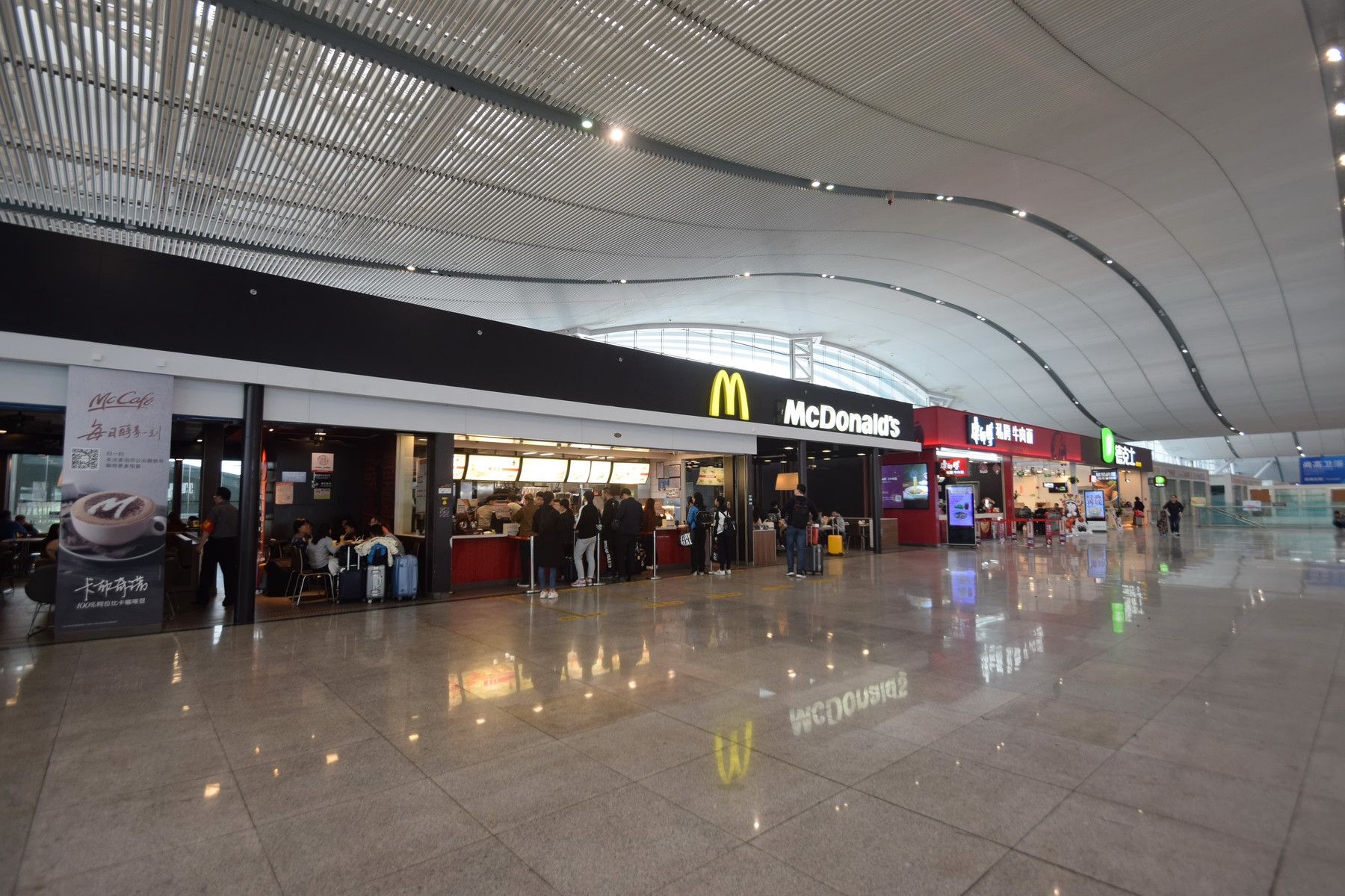 McDonald's at paid area of concourse of Shenzhen Bei (North) Railway Station.